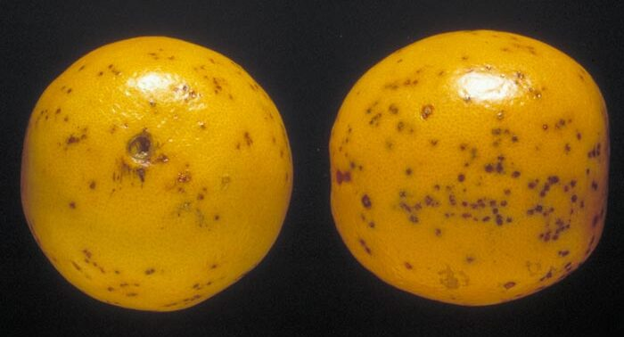 Citrus black spot on Valencia orange.